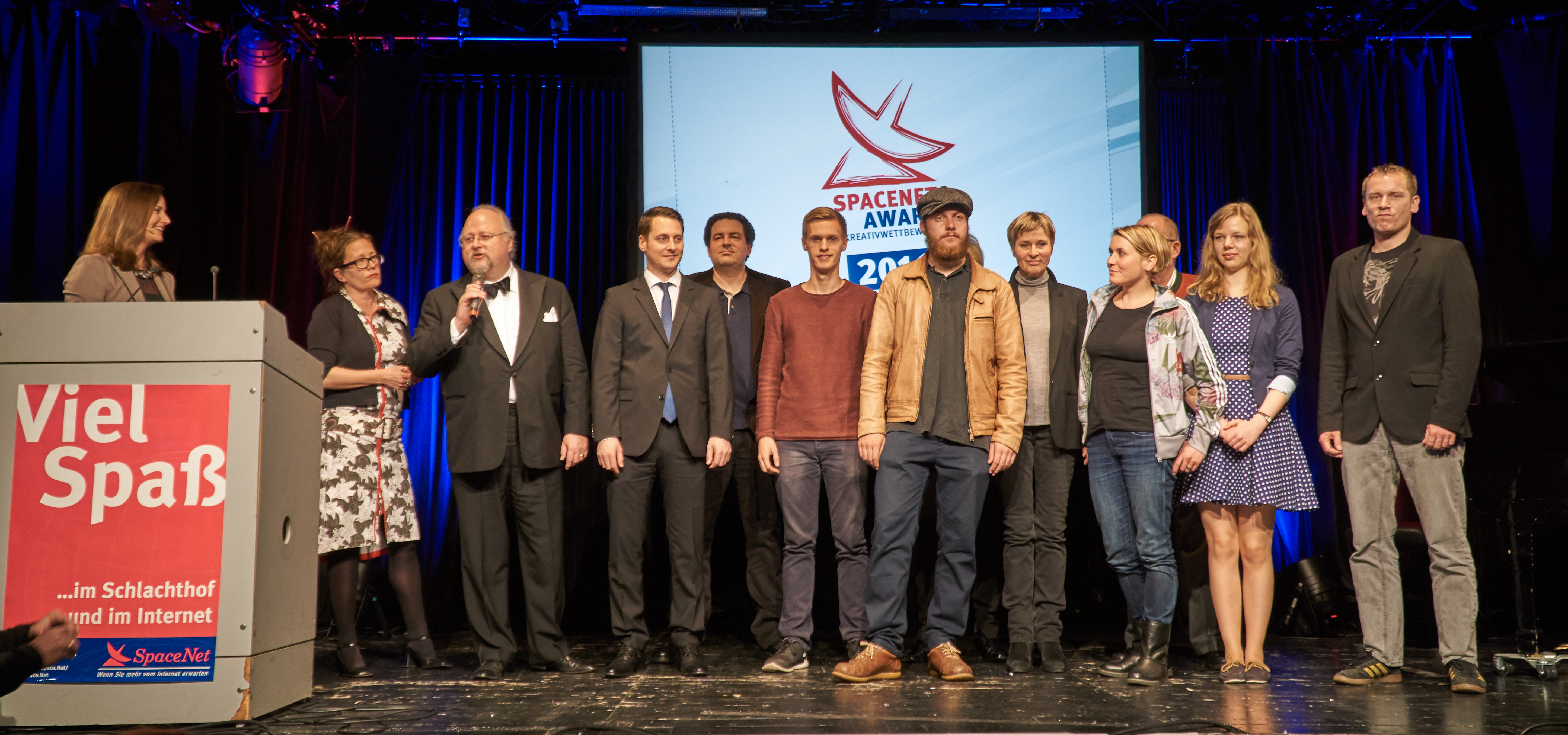 SpaceNet-Award 2016: Winners and Jury Members, Photo: Ina Matthes (2016)